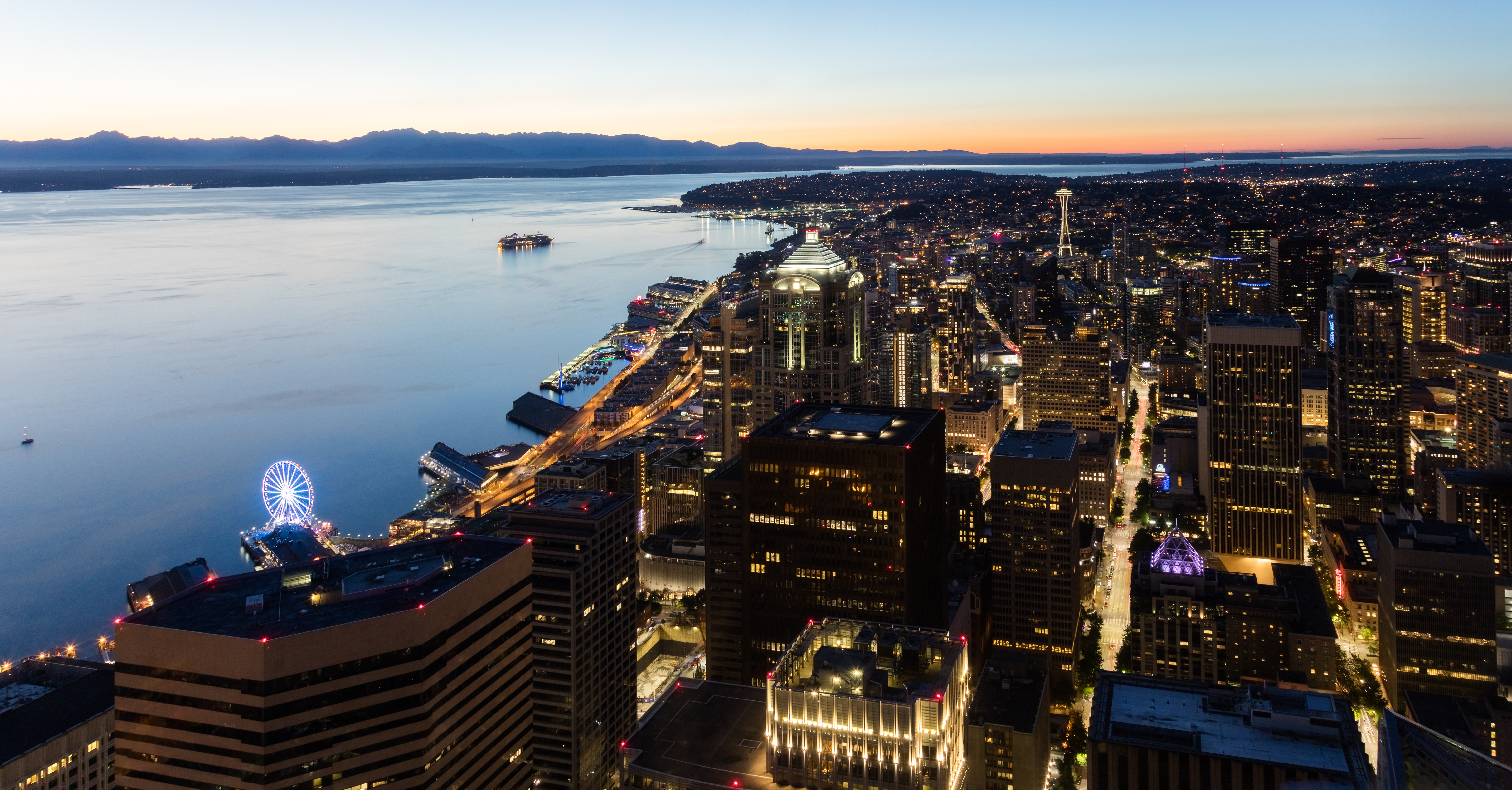 View of Seattle, Washington, USA